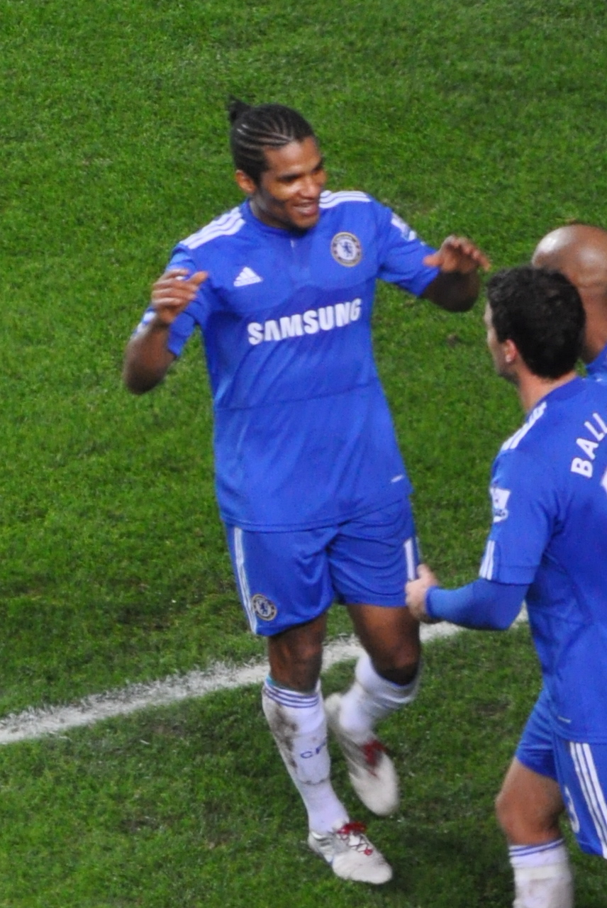 Malouda celebrating a Chelsea goal